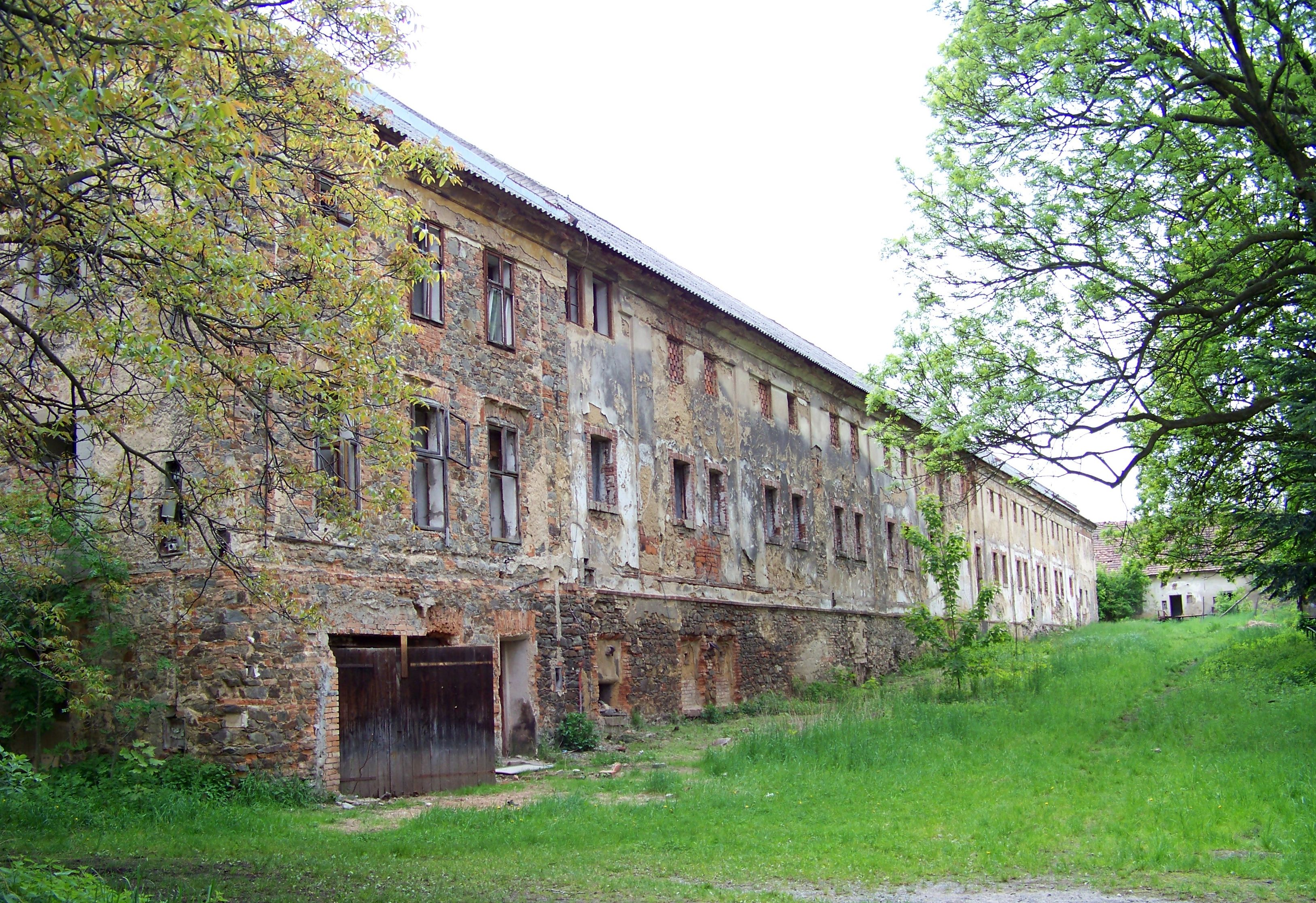 Petrovice, Prague, the Czech Republic. Edisonova street, the castle.